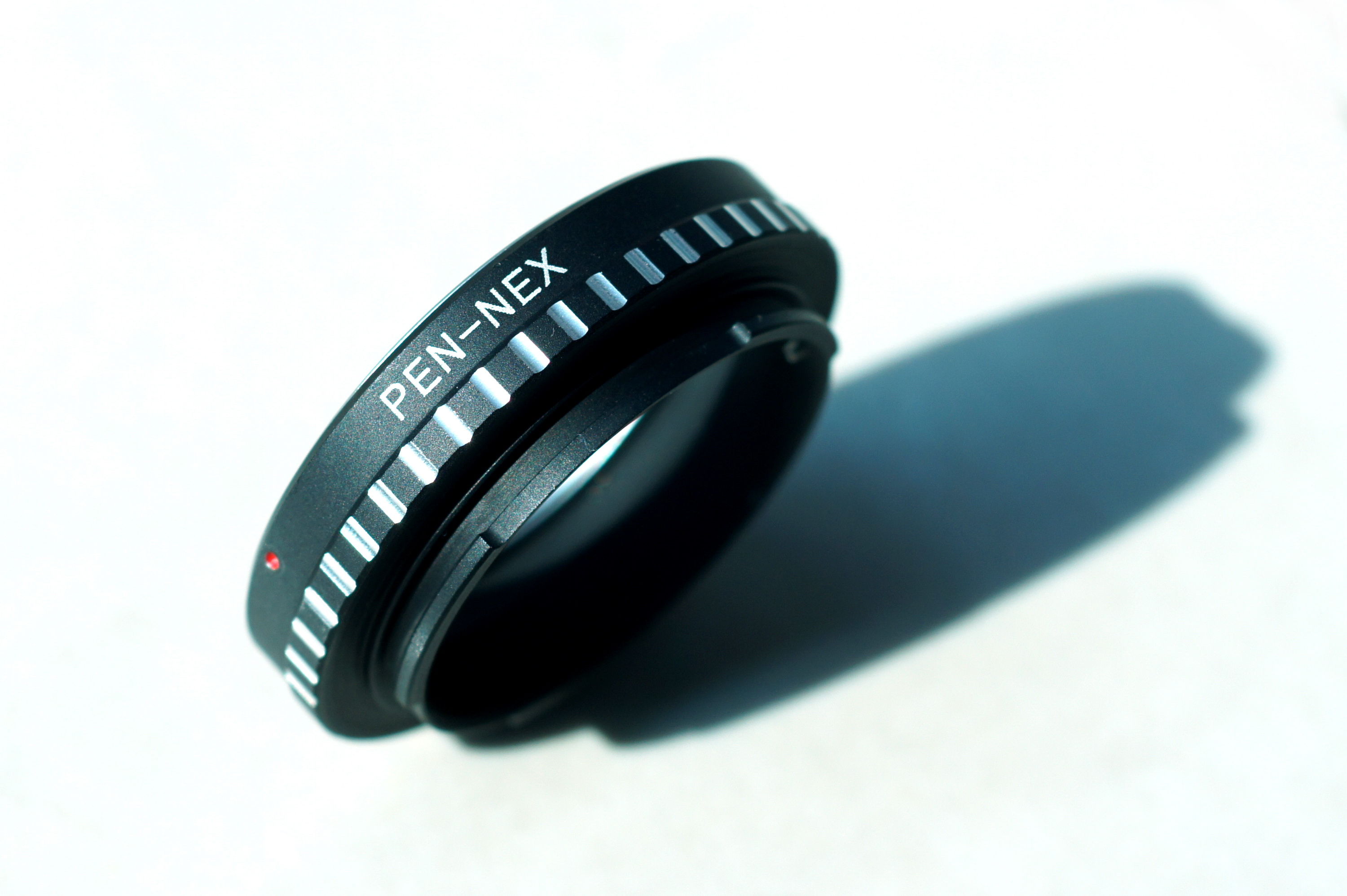 Olympus PEN F Lens to Sony NEX E Mount Adapter